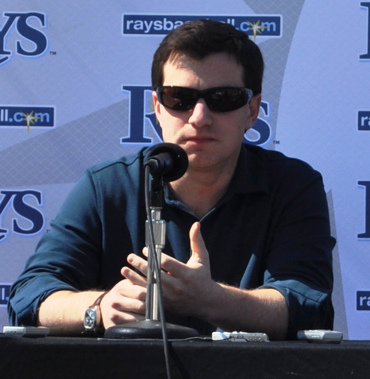 Tampa Bay Rays VP of Baseball Operations, Andrew Friedman during the pre-spring training press conference at the Charlotte Sports Park in Port Charlotte, Fla., Feb. 15, 2011.